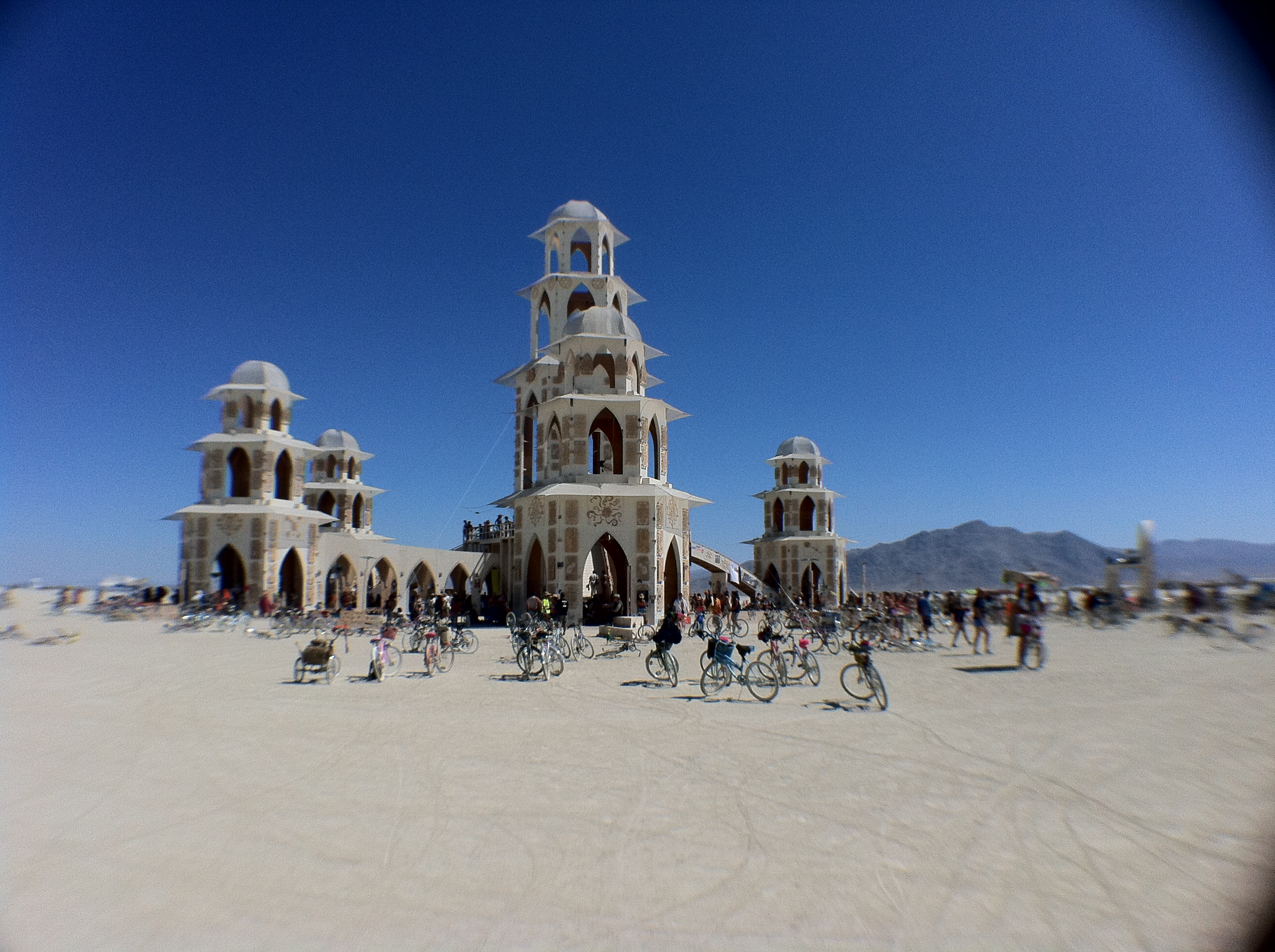 Burning Man 2011 Shot by Victor Grigas